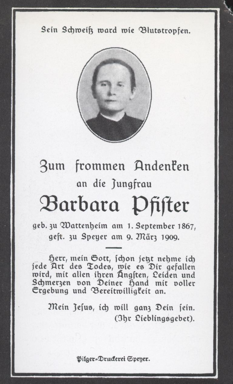 Obituary Barbara Pfister 1909